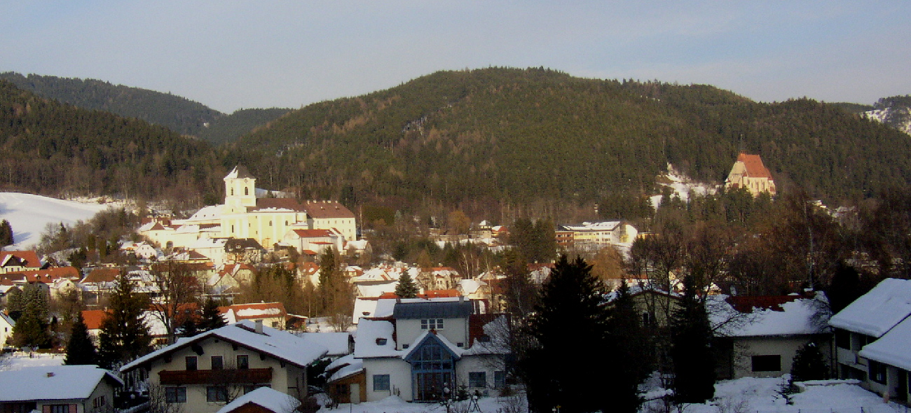 View of Kirchberg am Wechsel, Lower Austria. Left side: parochial church St Jakob, right side: church St Wolfgang